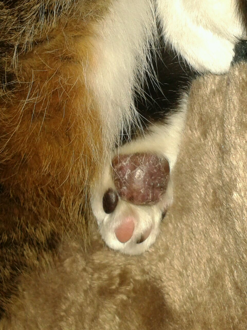 plasma cell pododermatitis in a cat